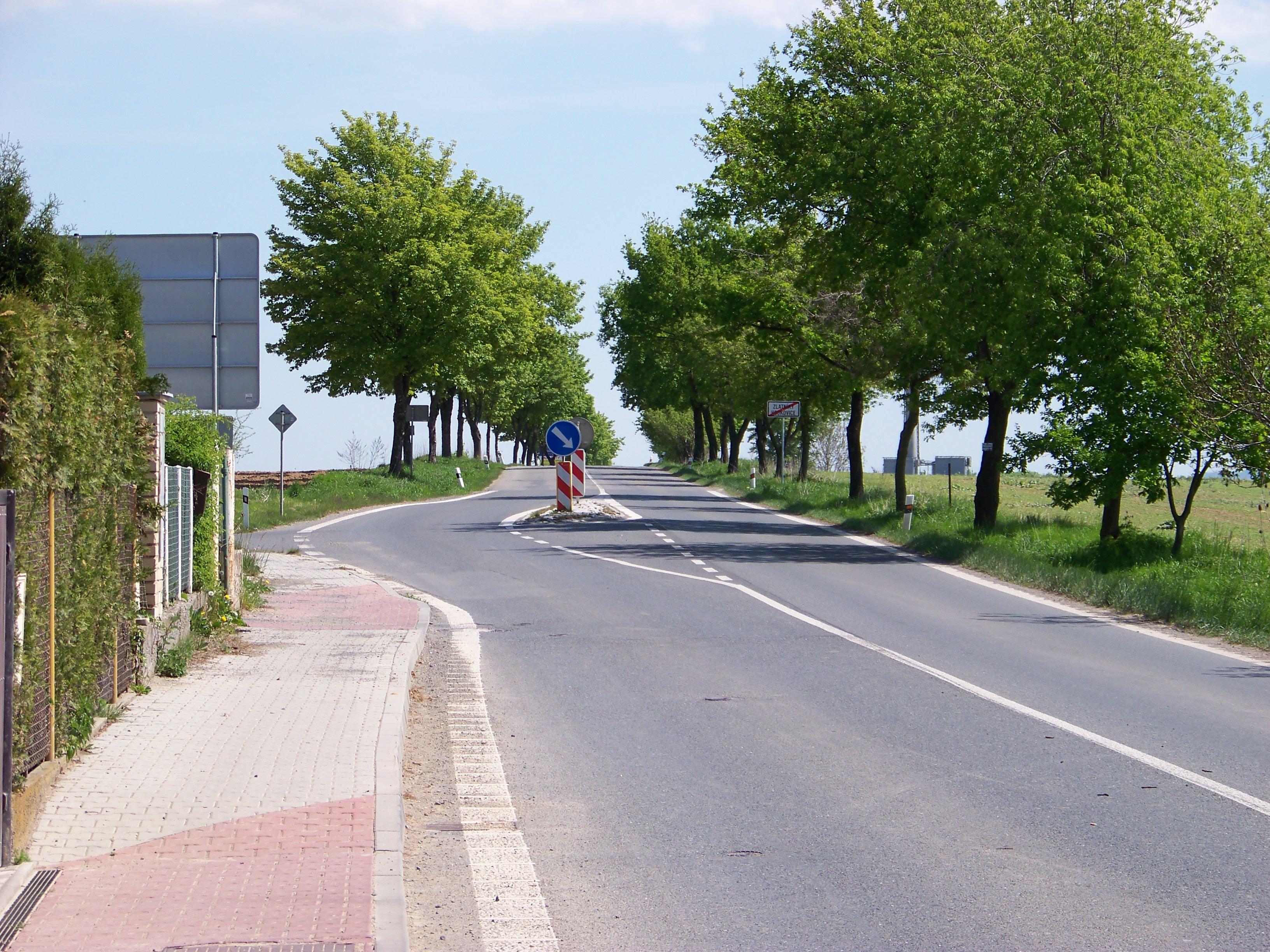 Zlatníky, Zlatníky-Hodkovice, Prague-West District, Central Bohemian Region, the Czech Republic. Road 101 (Jesenická).